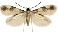 Acalyptris platani